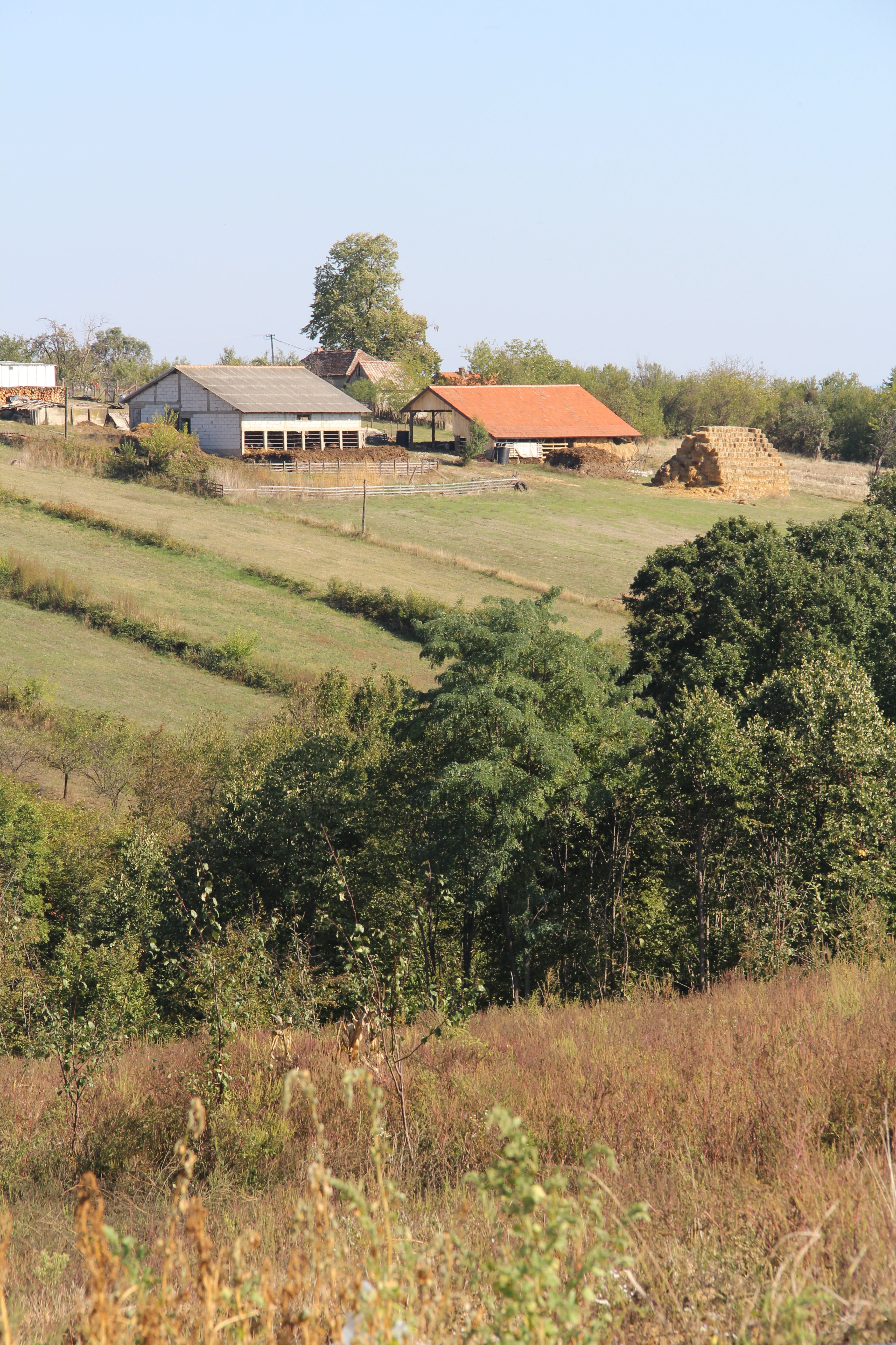 Klanica village - Municipality of Valjevo - Western Serbia - Panorama 2